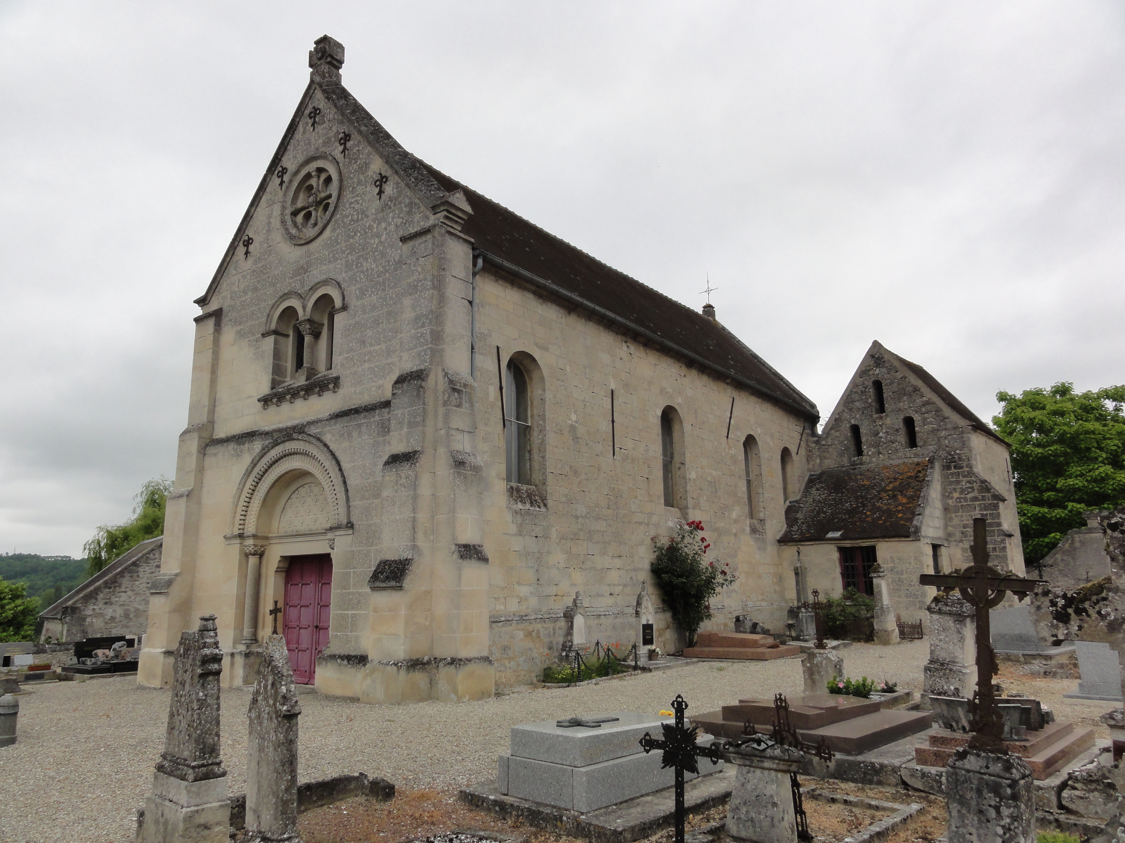 Rozières-sur-Crise (Aisne) église Saint-Martin